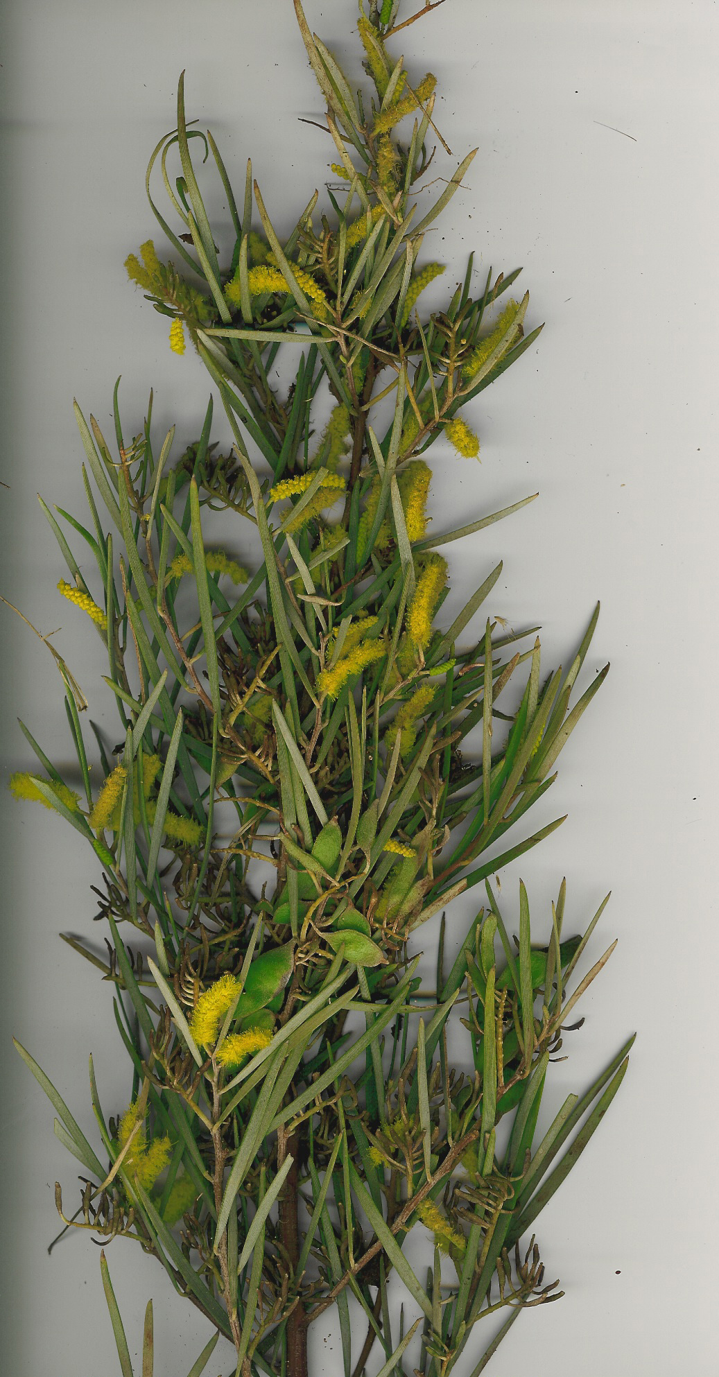 Acacia aneura (plant). Location: Lanai, Kaumalapau Rd